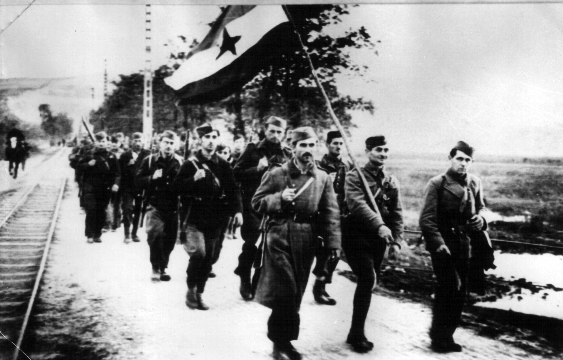 Entrance of the 7th Vojvodina brigade in liberated Novi Sad, 23 October 1944